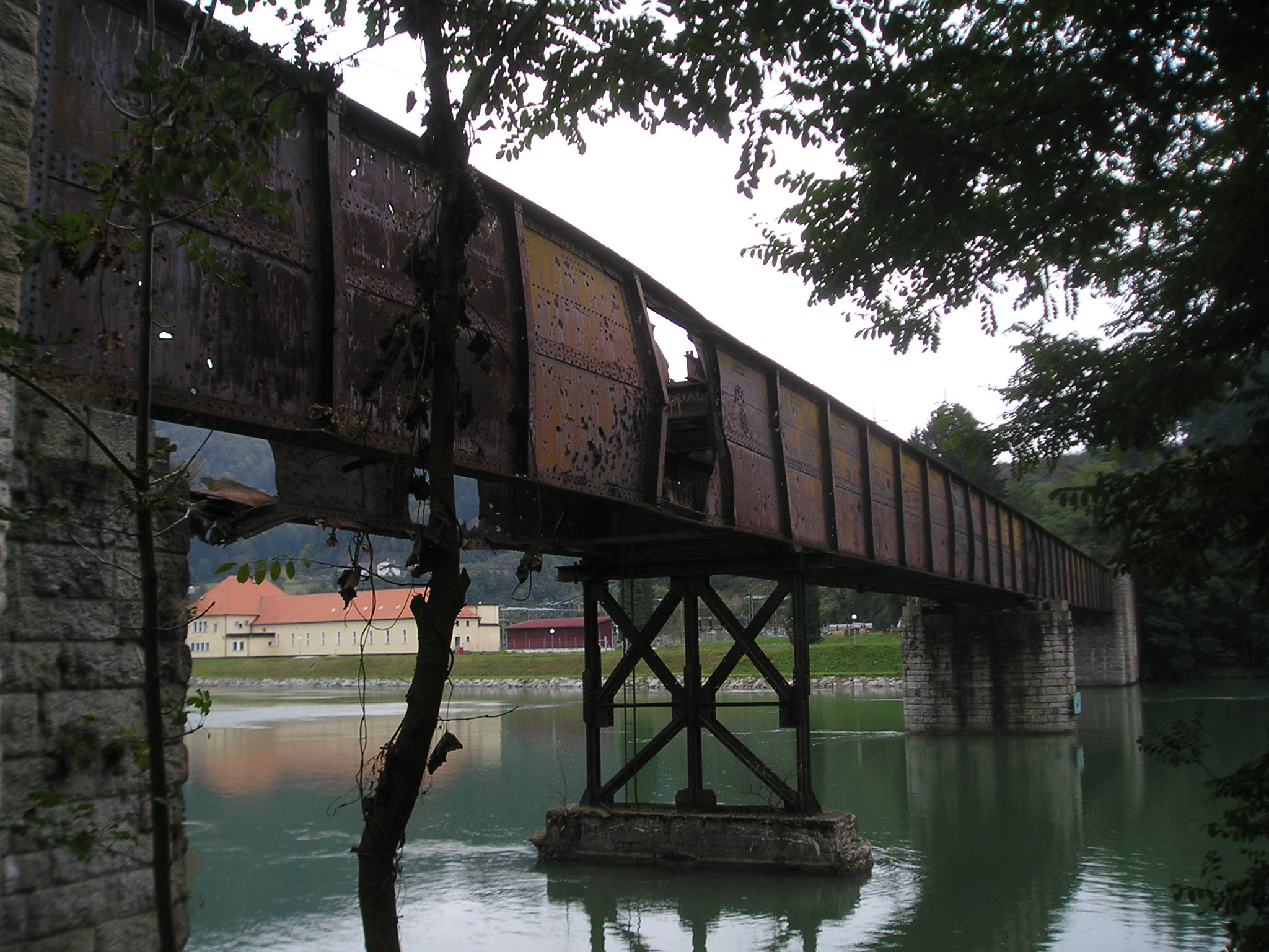 The former railway bridge (of the Lavanttalbahn railway section between Dravograd and Lavamünd, abandoned in 1965) over the Drava in Dravograd, view from west. Today the bridge is completely abandoned and inaccessible.